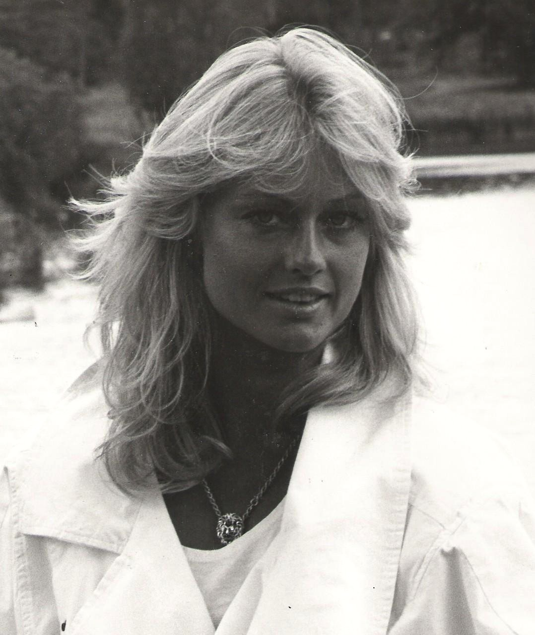 Mary Stavin